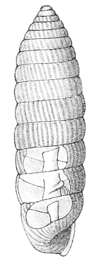 Drawing of partly damaged shell of Holospira bilamellata showing its columella.